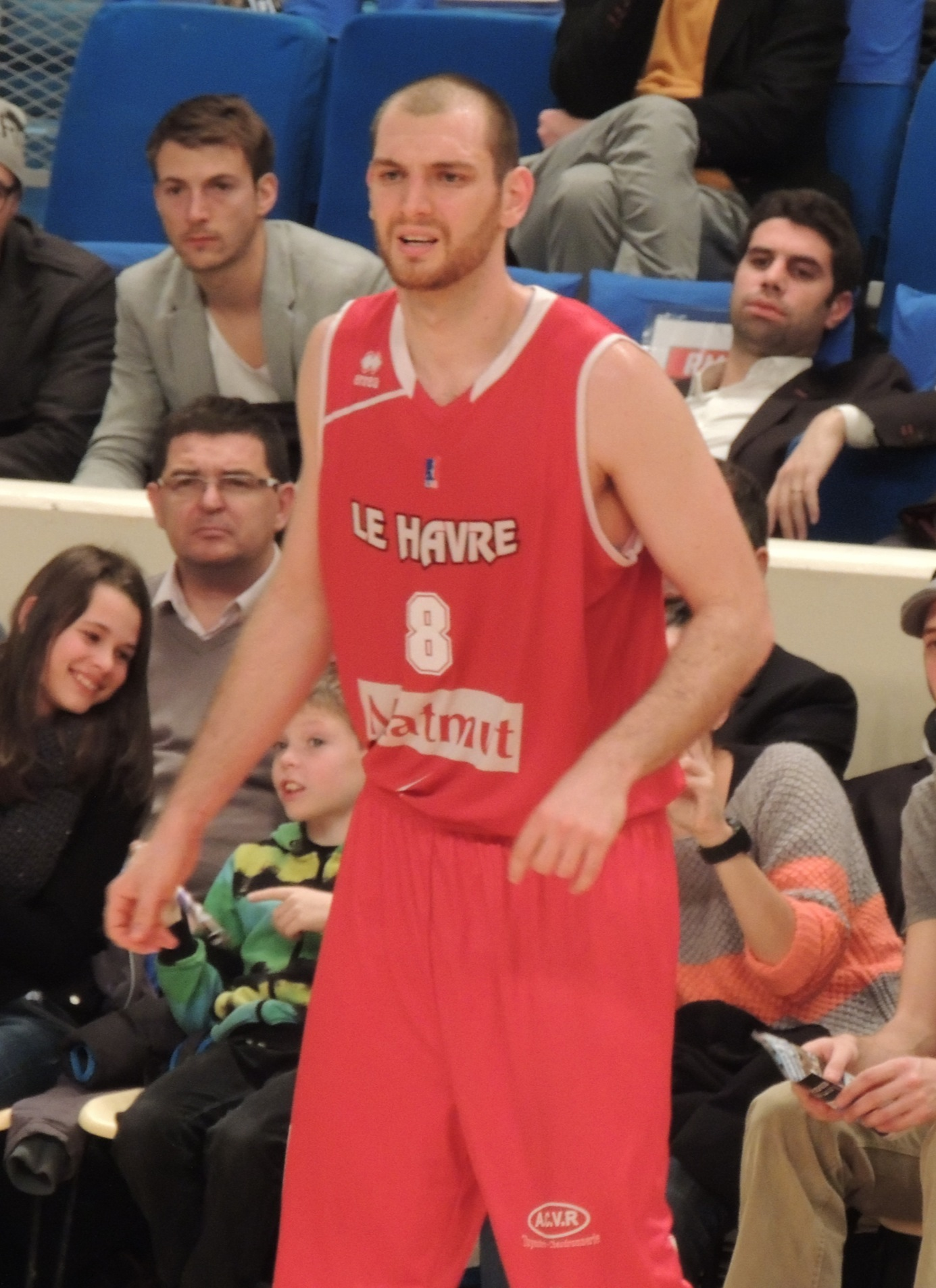 Vlad Moldoveanu playing for Le Havre against Paris-Levallois